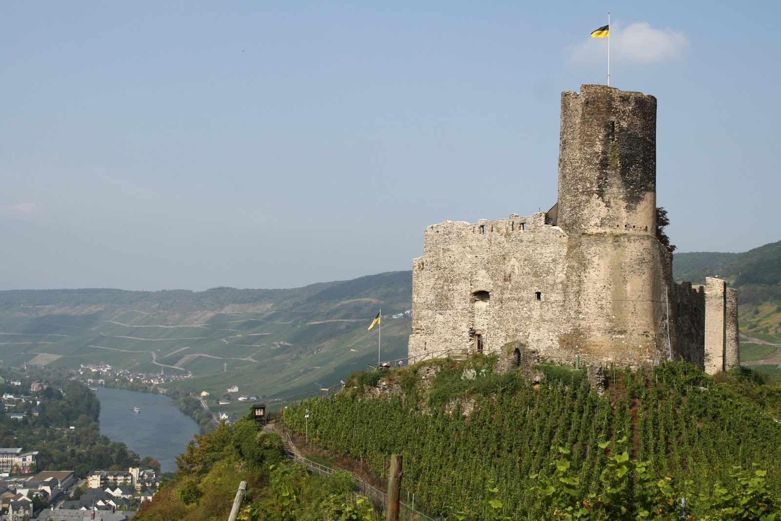 Ruins of Landshut Castle, near Bernkastel-Kues, Germany